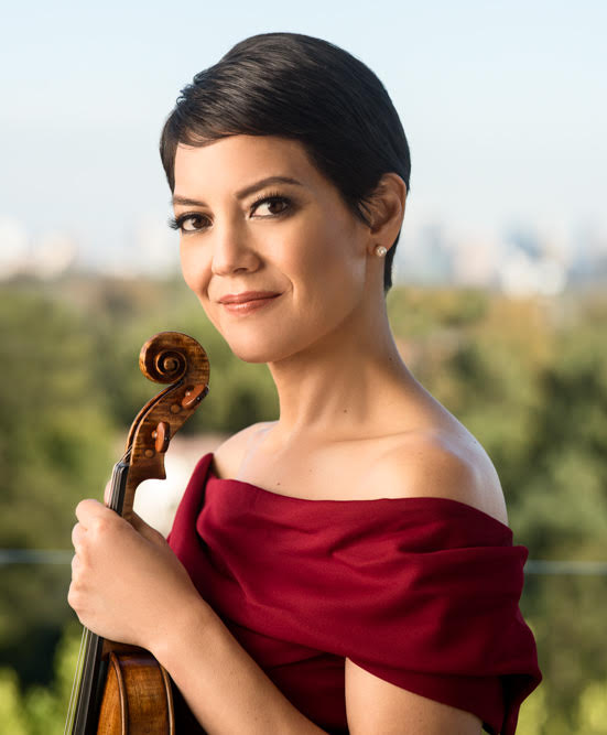 Violinist Anne Akiko Meyers in California in November 2017. Photo taken by David Zentz.